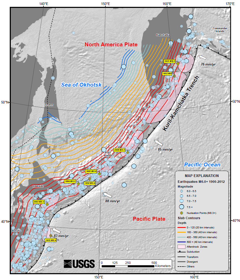 USGS map of the Kuril-Kamchatka trench, showing earthquake locations and depth contours on downgoing slab